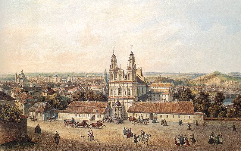 Vilnius panorama in 19th century.